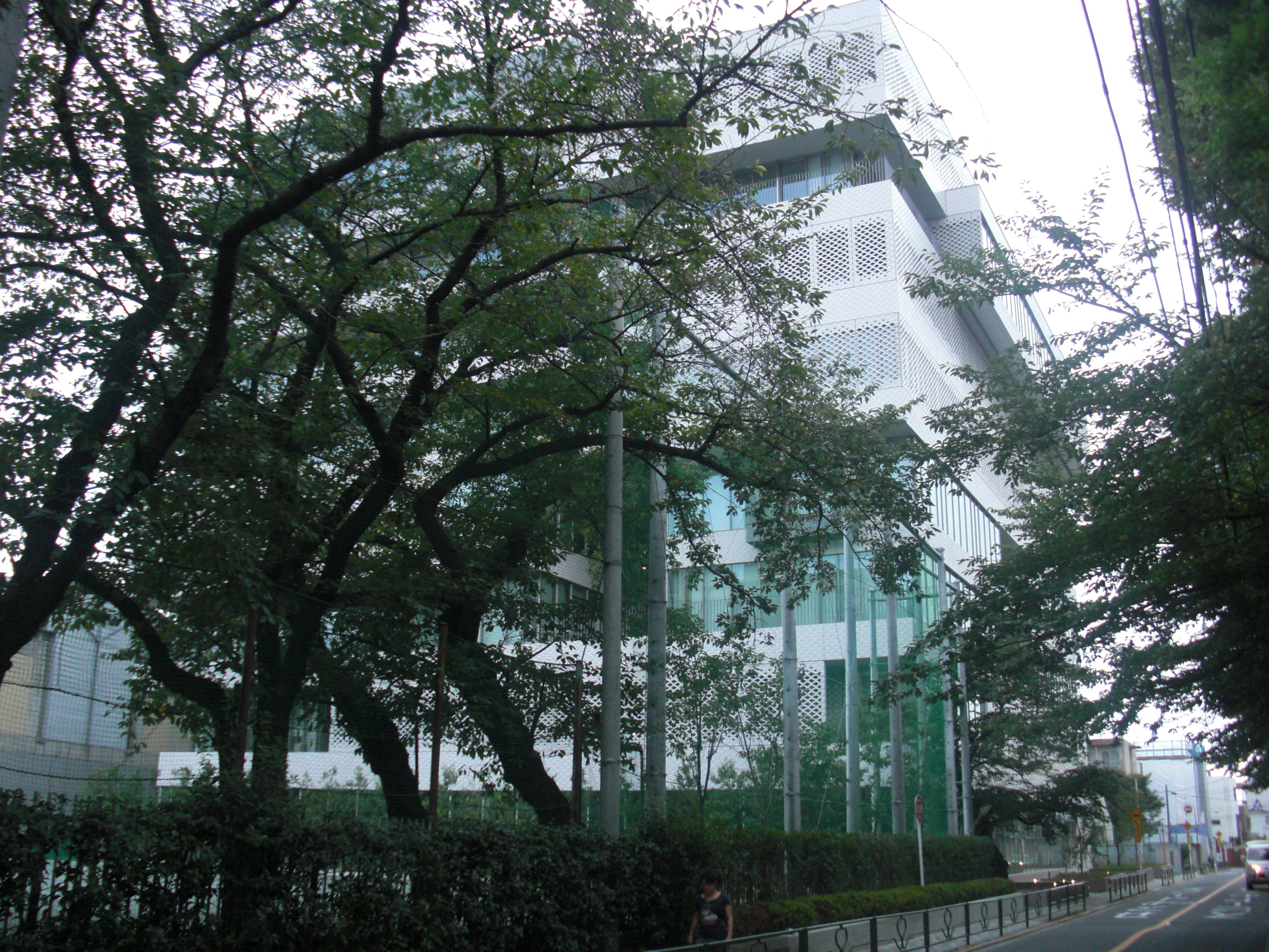 This is the Atomi University Bunkyo Campus, which is Otsuka 1-5-2, Bunkyo, Tokyo, Japan.